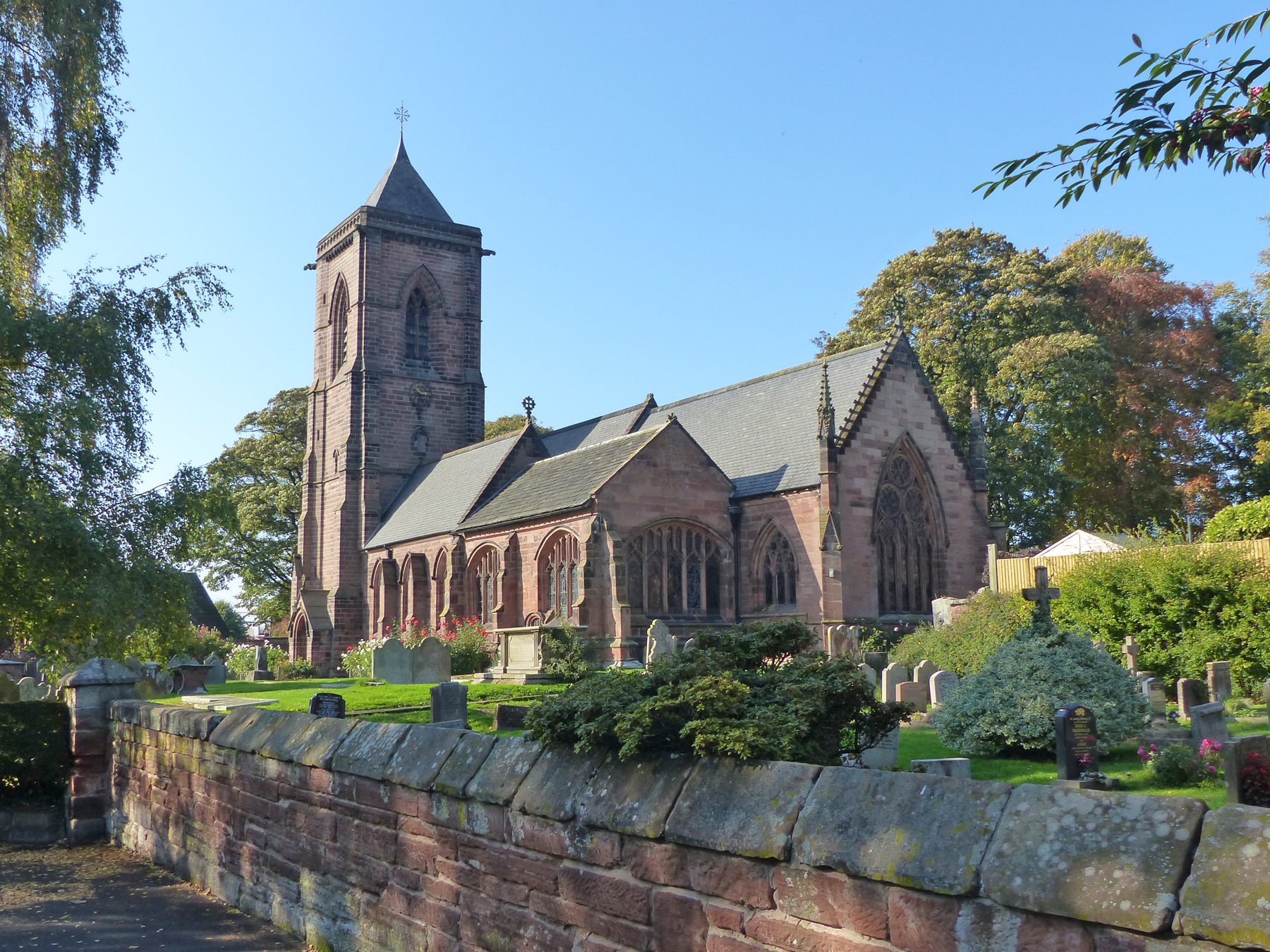 Grade II* listed church in Tarporley, Cheshire